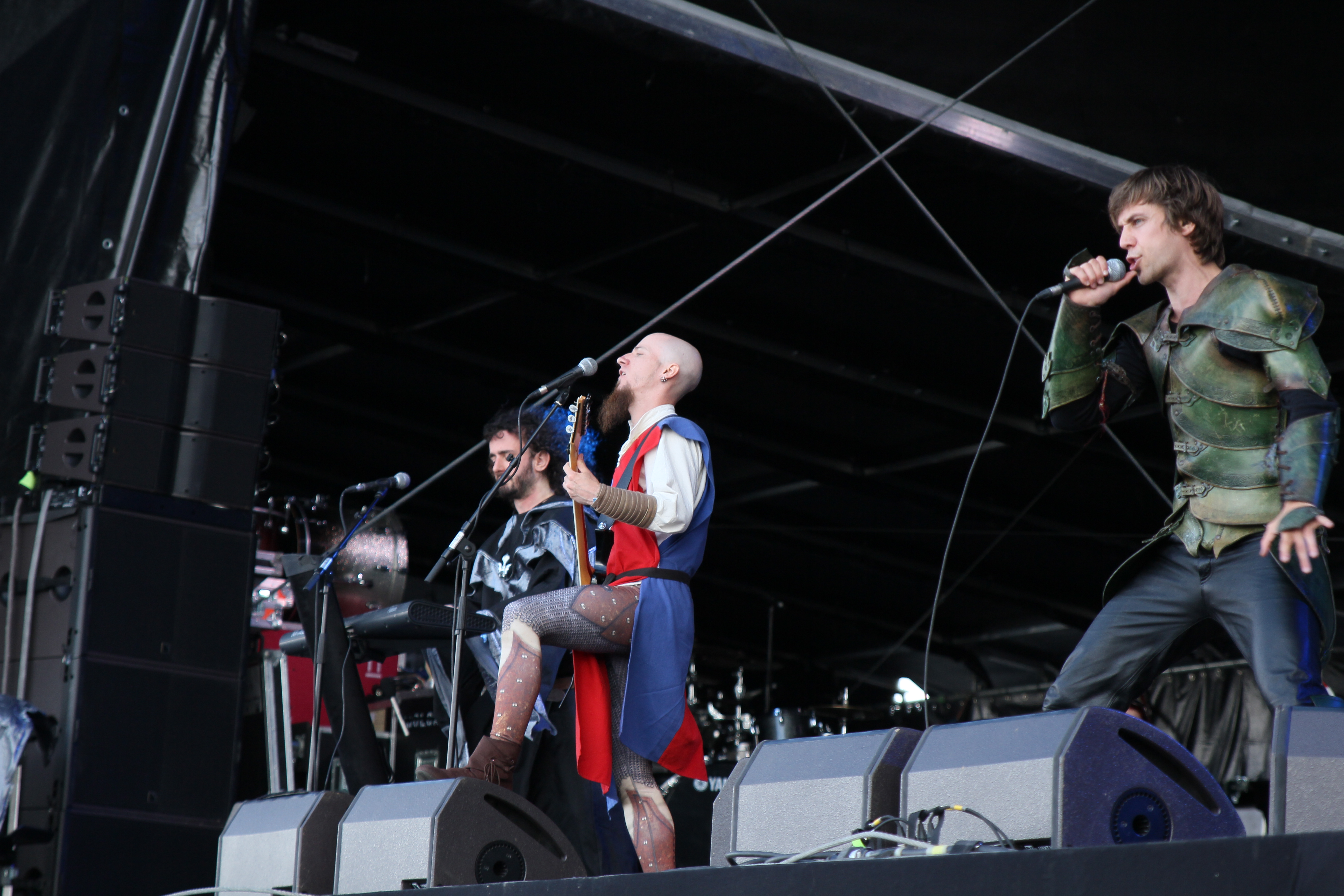 The Scottish-Swiss power metal band Gloryhammer at the Rockharz Open Air 2014 in Ballenstedt/Germany